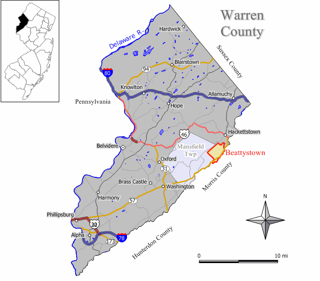 Original work by Jim Irwin, December 2005. Map of Beattystown CDP in Warren County.